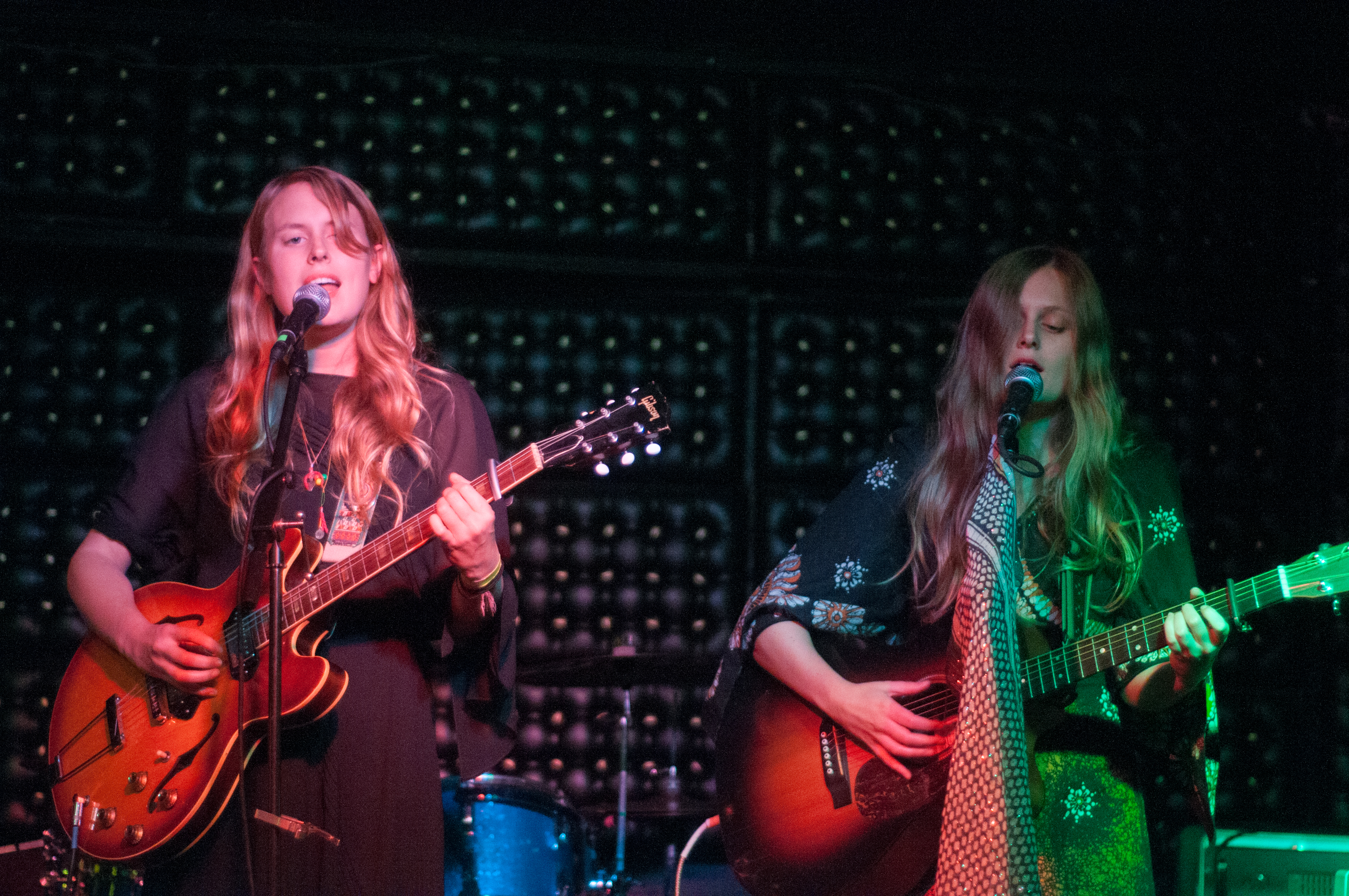 The Chapin Sisters performing in San Diego